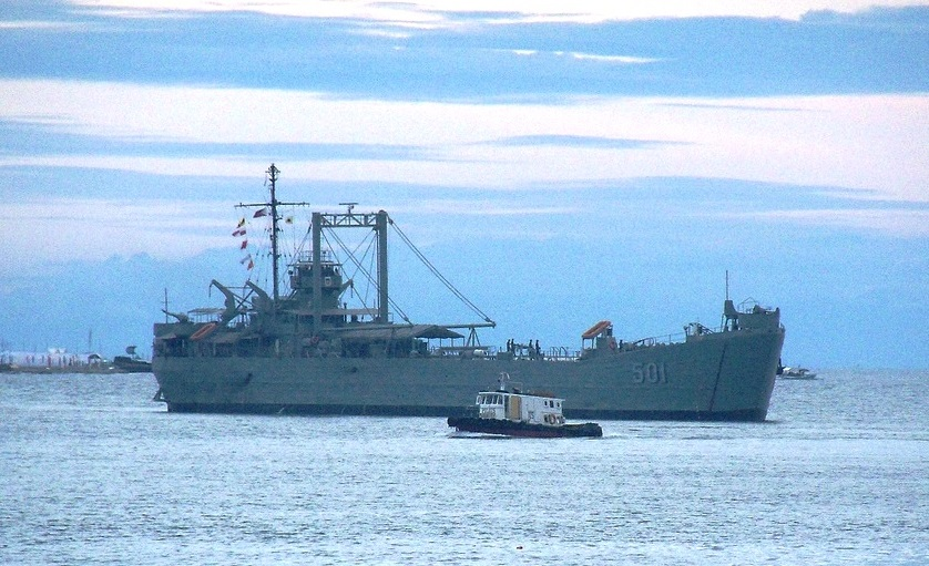 BRP Laguna